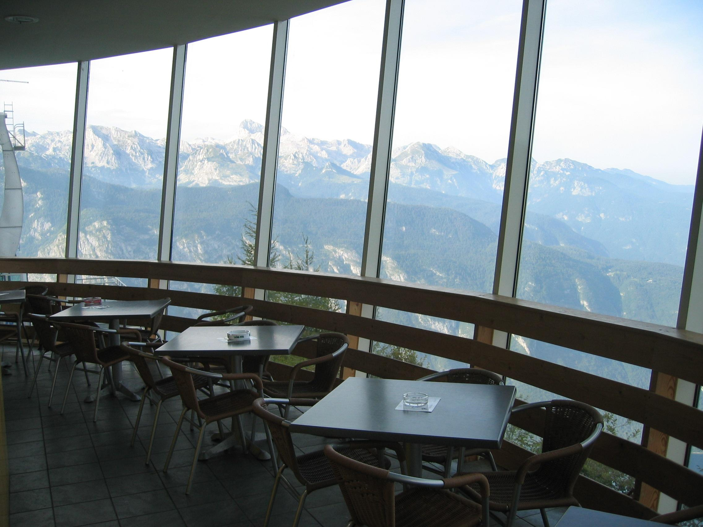 Vogel, ski resort in Julian Alps, Slovenia (summer) photo:Ziga 19:18, 29 December 2006 (UTC)